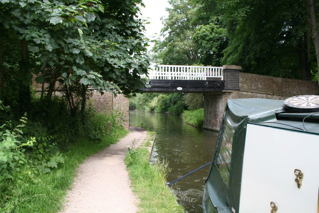 Bridge 168, Grand Union Canal, Watford The whole stretch of canal through Watford forms a restful green environment.